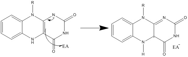 Radical Formation with FAD